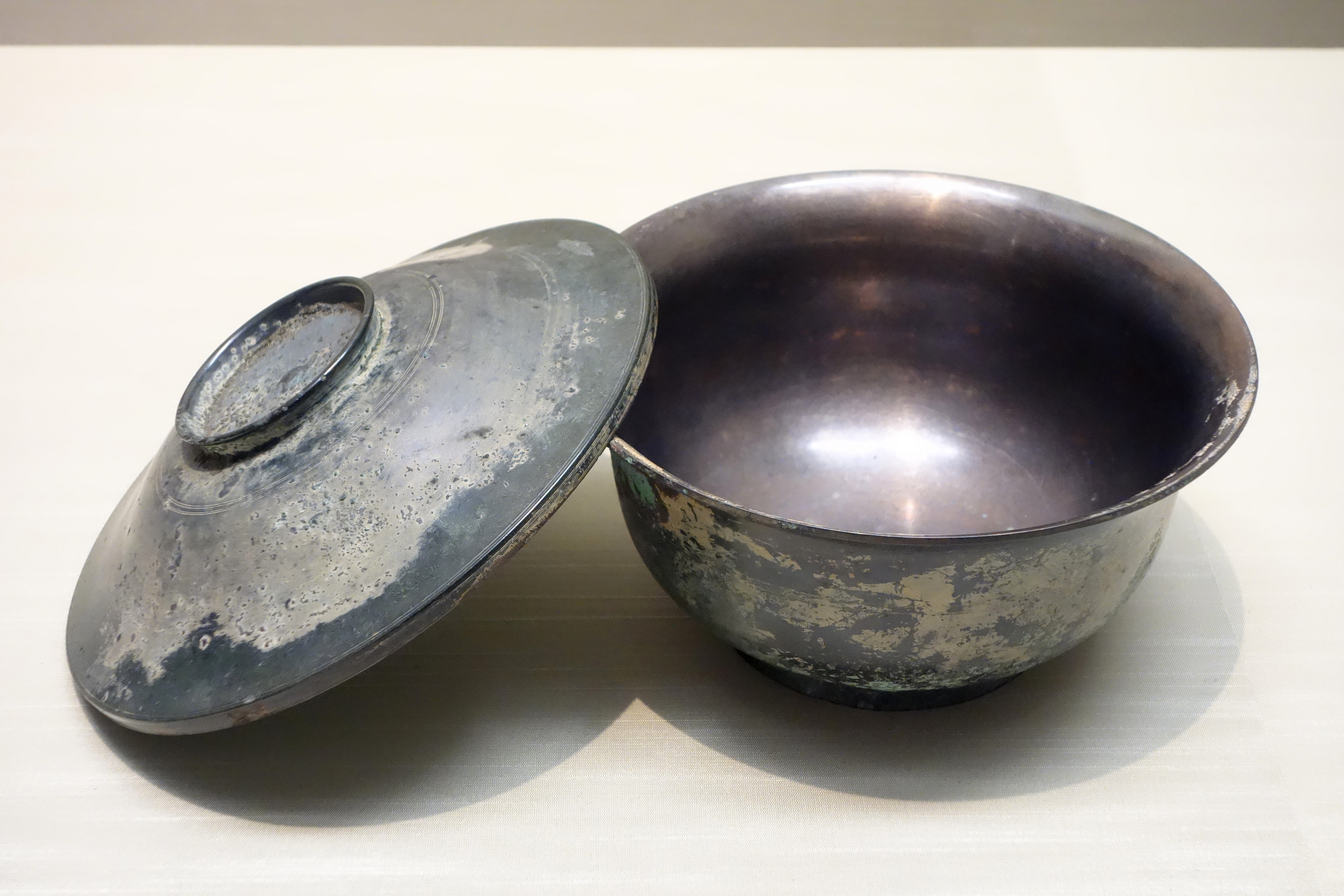 Exhibit in the Tokyo National Museum, Tokyo, Japan. This artwork is old enough so that it is in the public domain.